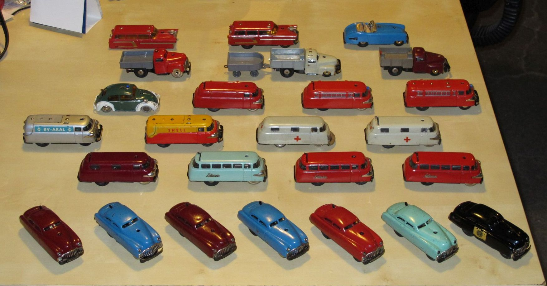 various models from the Schuco Varianto lineup. Notice the very rare 3048 Patrol car in the lower right corner.